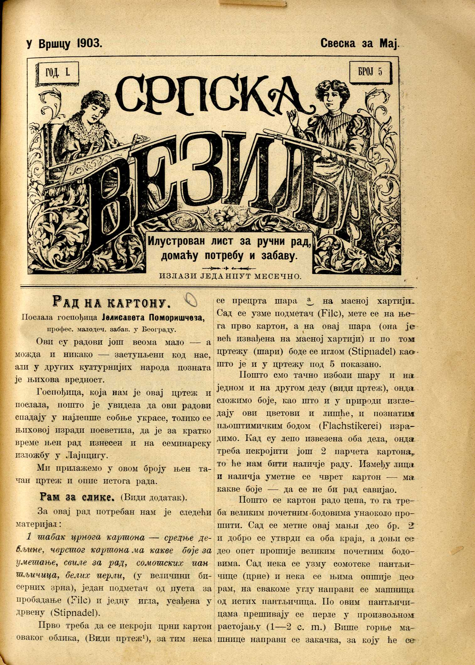 Cover page Magazine Srpska vezilja, number 5, 1903.